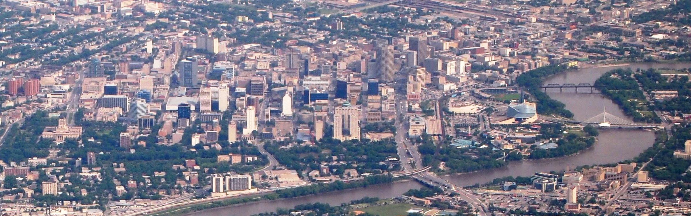 Aerial view of downtown Winnipeg and the Red River. I adapted this work on my own. This photo was originally taken by user:Haljackey.